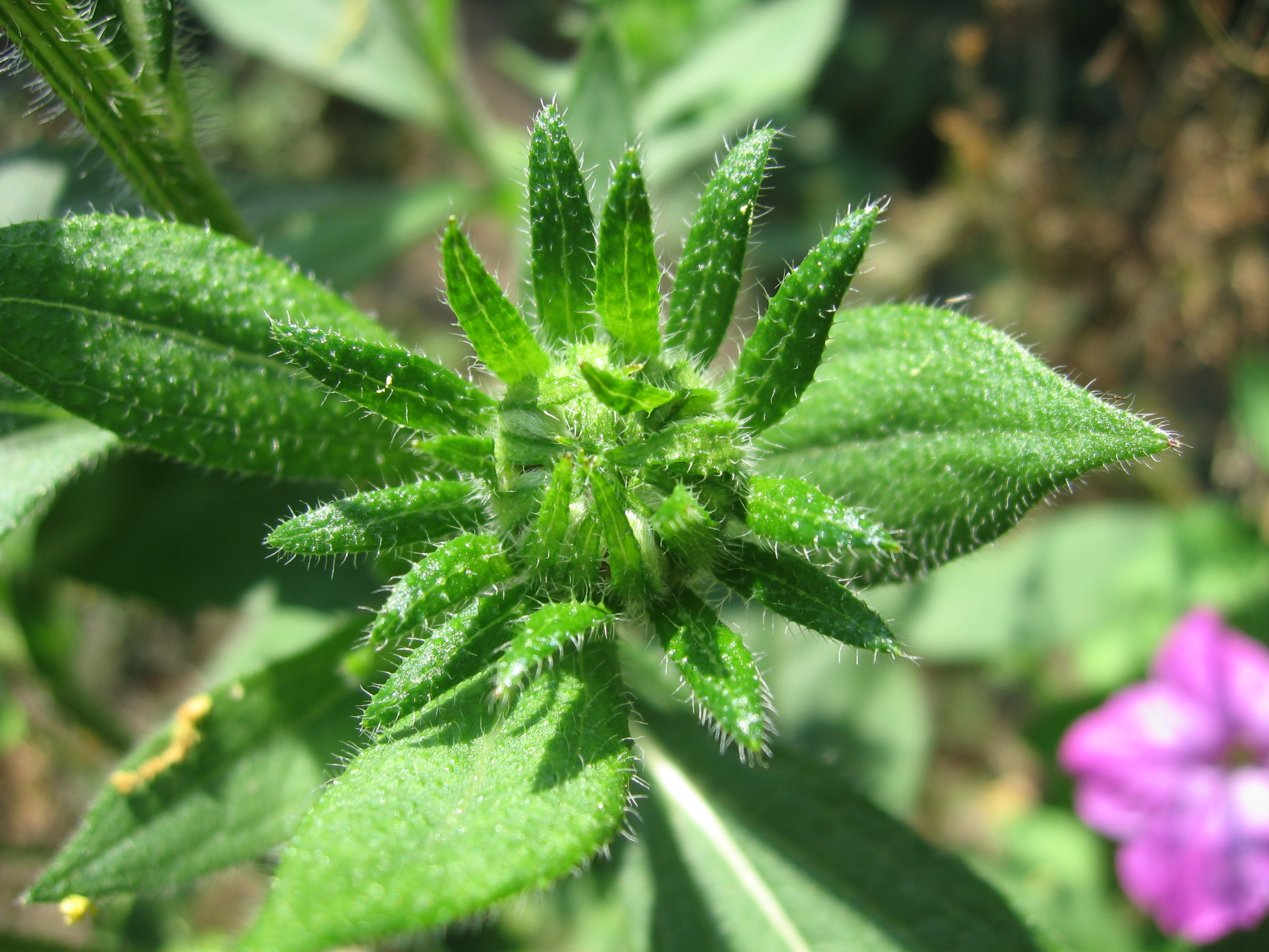 Rudbeckia hirta bud